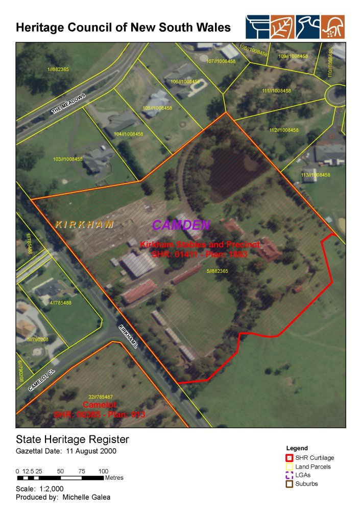 Kirkham Stables: SHR Plan 1893